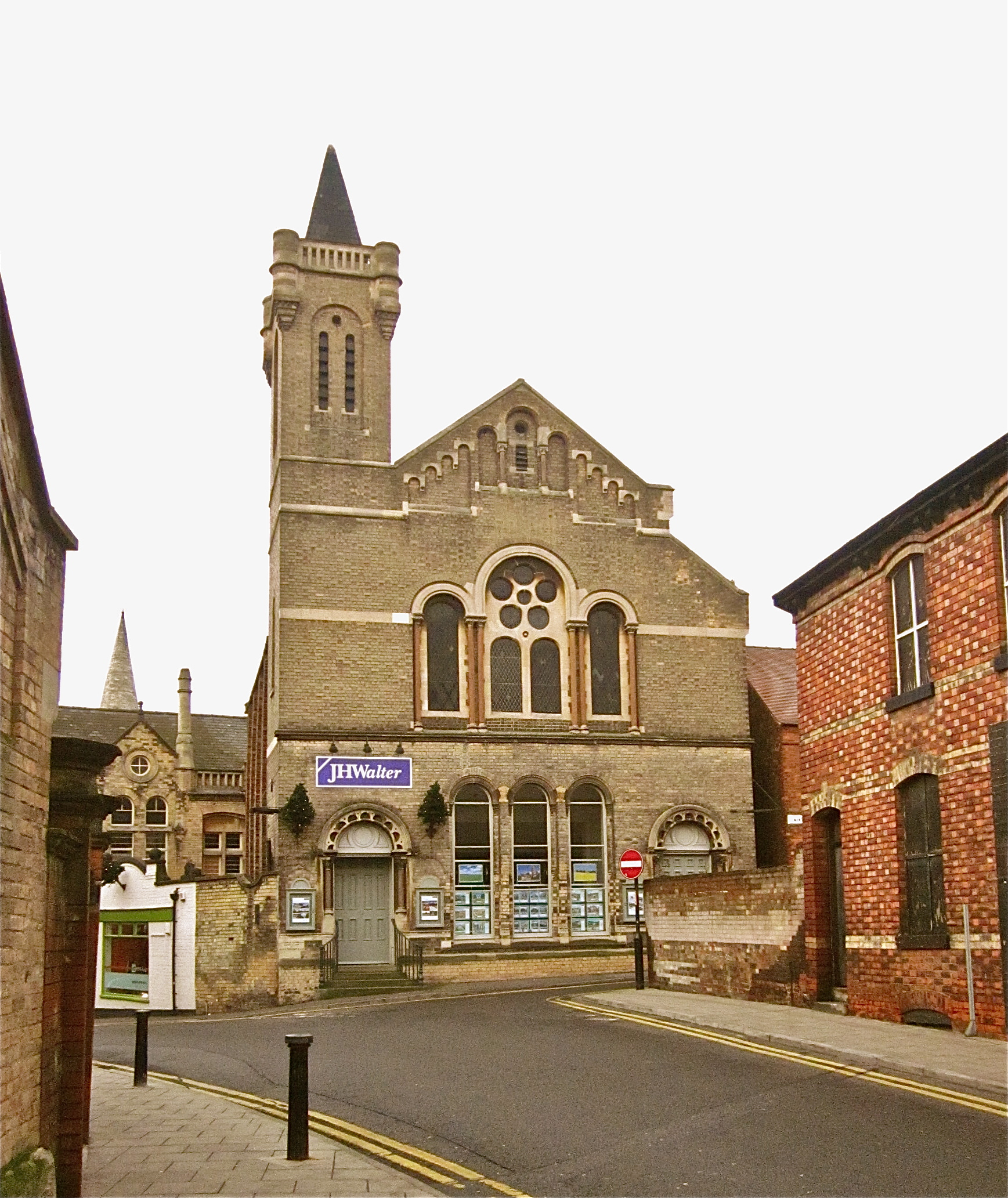 JH Walters' estate agency, Mint Street, Lincoln, seen from the east. Built in 1870 as Mint Street Baptist Church. Designed by Lincoln architects Drury and Mortimer in a debased Italianate Romanesque revival style.